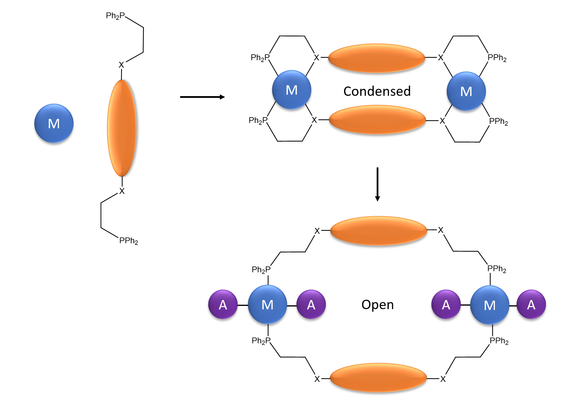 Weak Ligand Approach to assemble coordination cages